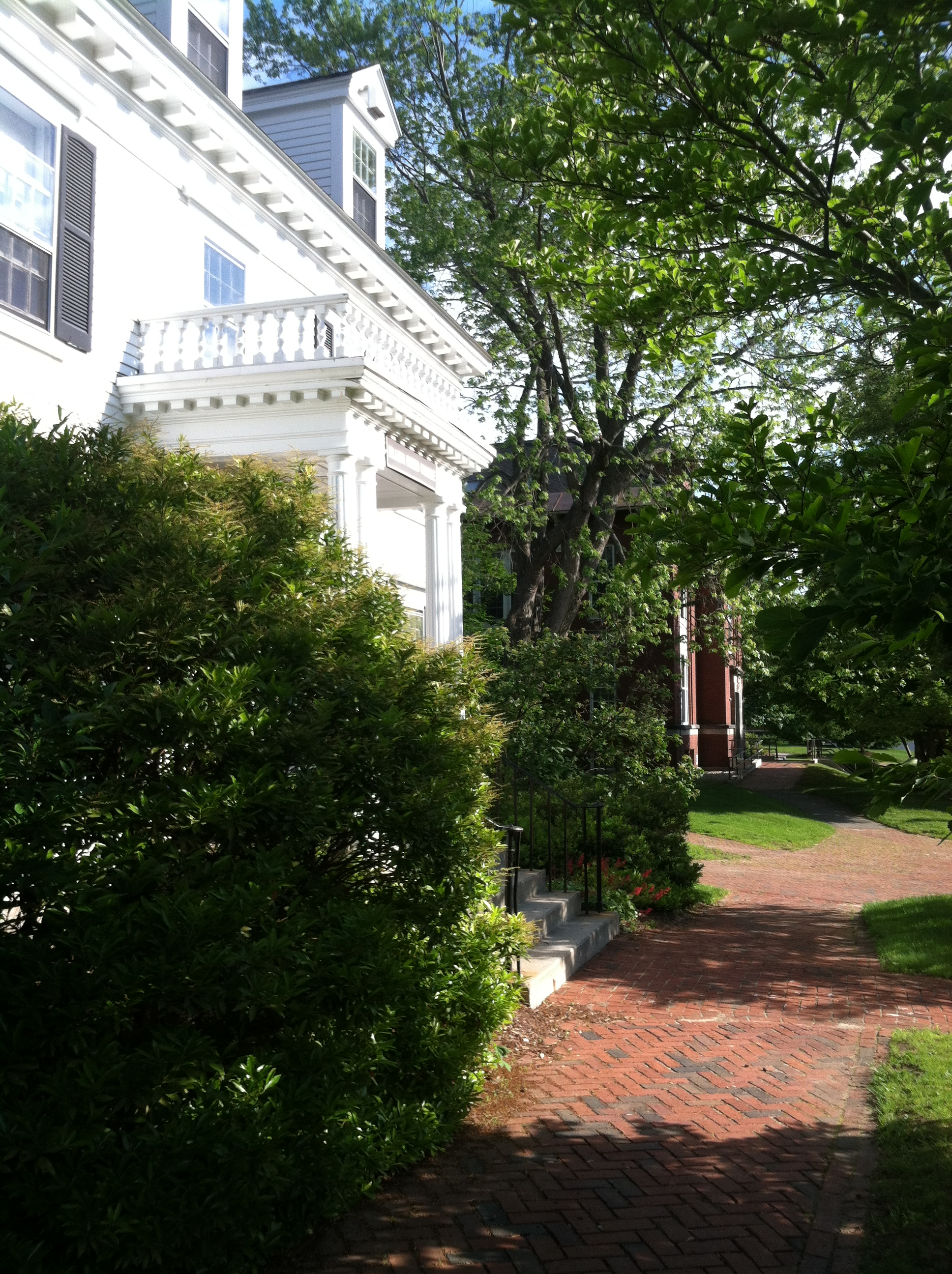 Ellen Reed House, Plymouth State University, Plymouth NH, 2013